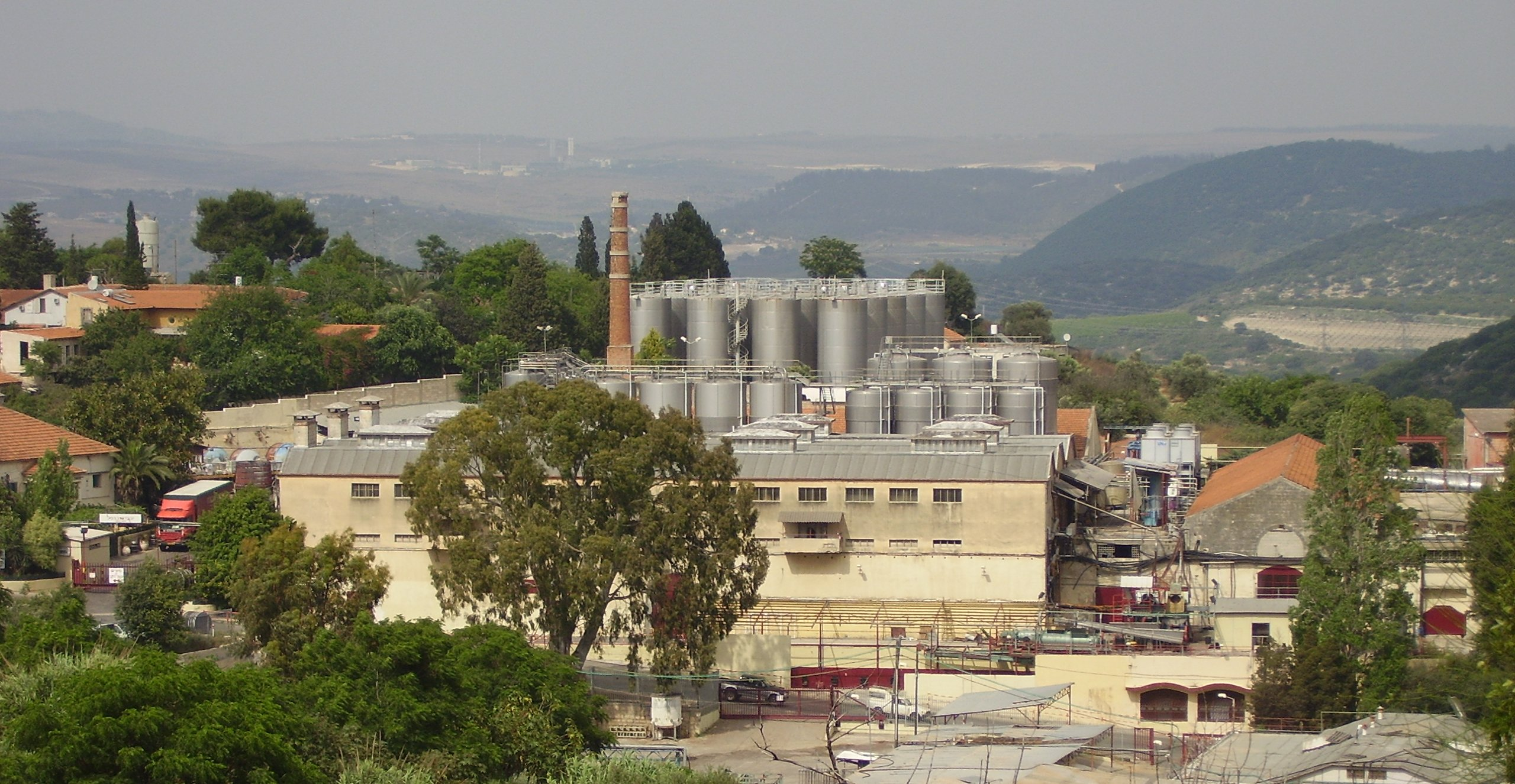 The Carmel Mizrahi winery in Zichron Yaacov, Israel; view from south-west